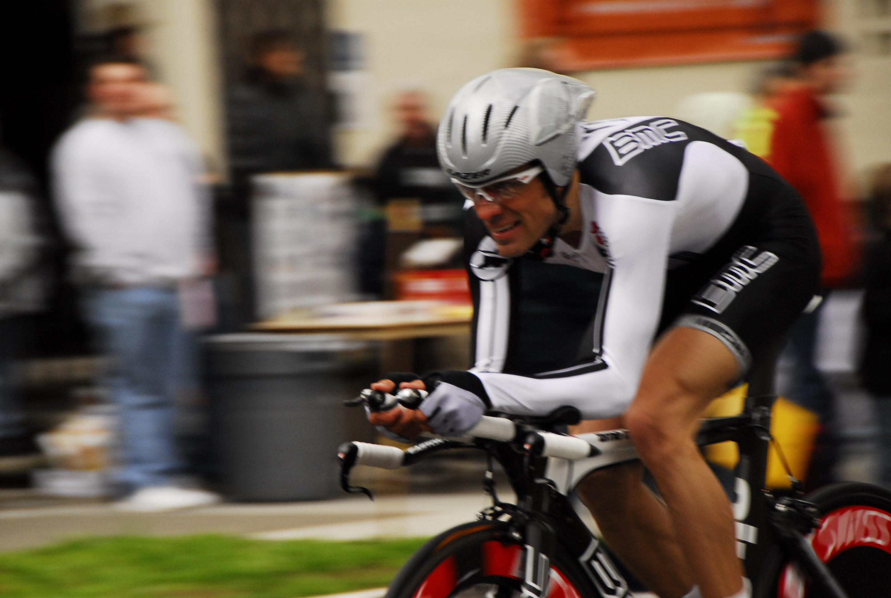 Alexandre Moos, Tour of California 2009